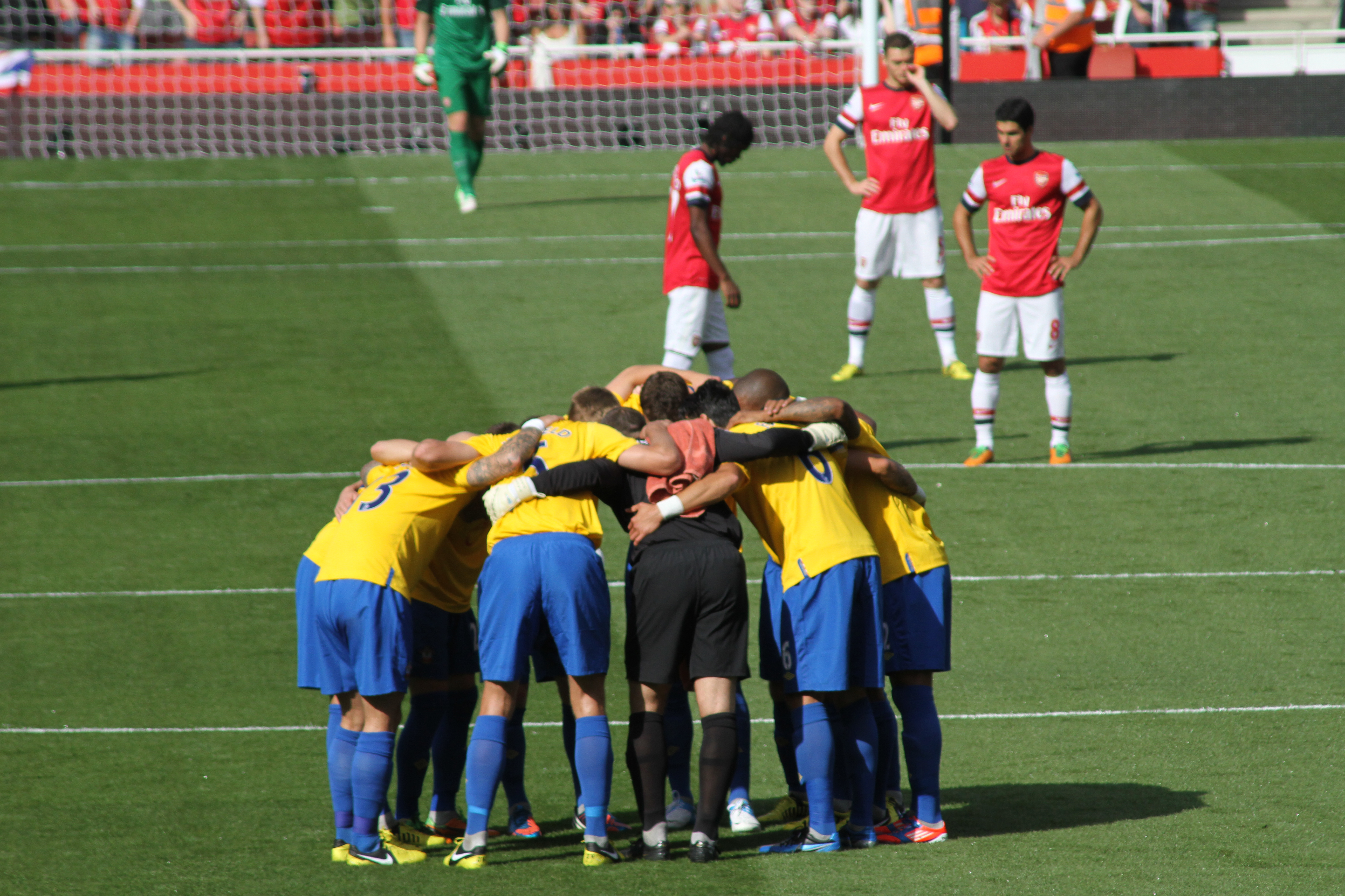 Pre kick-off 3 Southampton prepare!